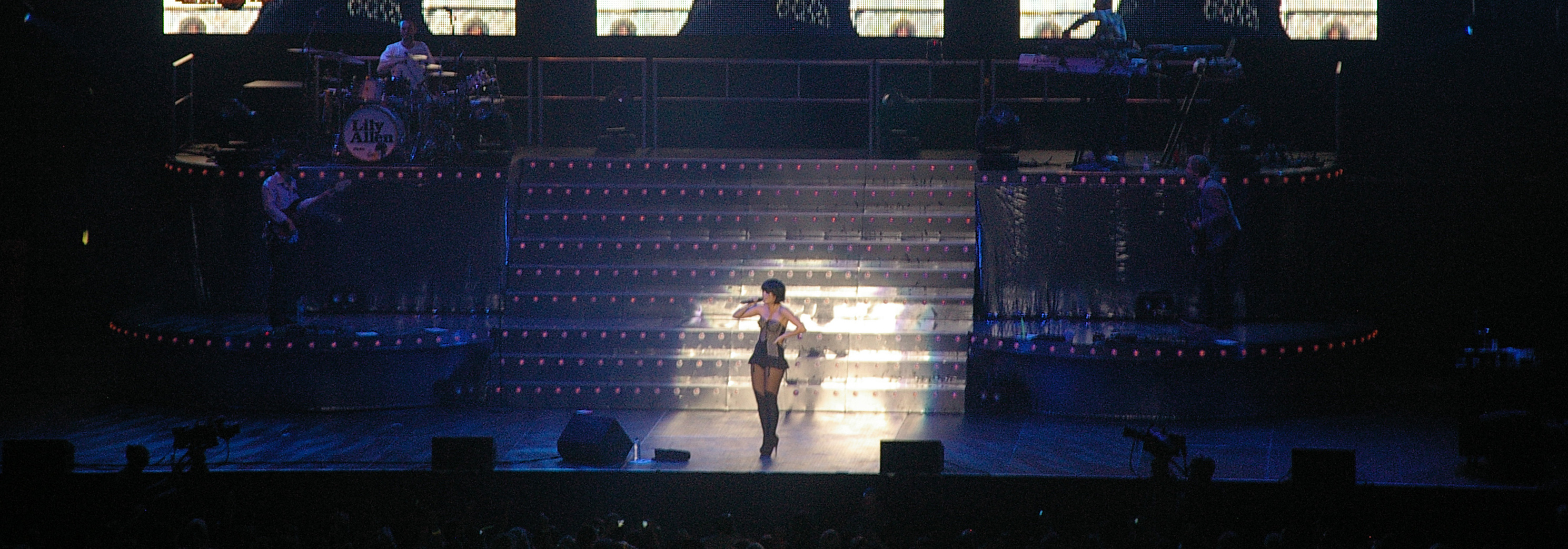 Lily Allen performing live at the Trent FM Arena in Nottingham.